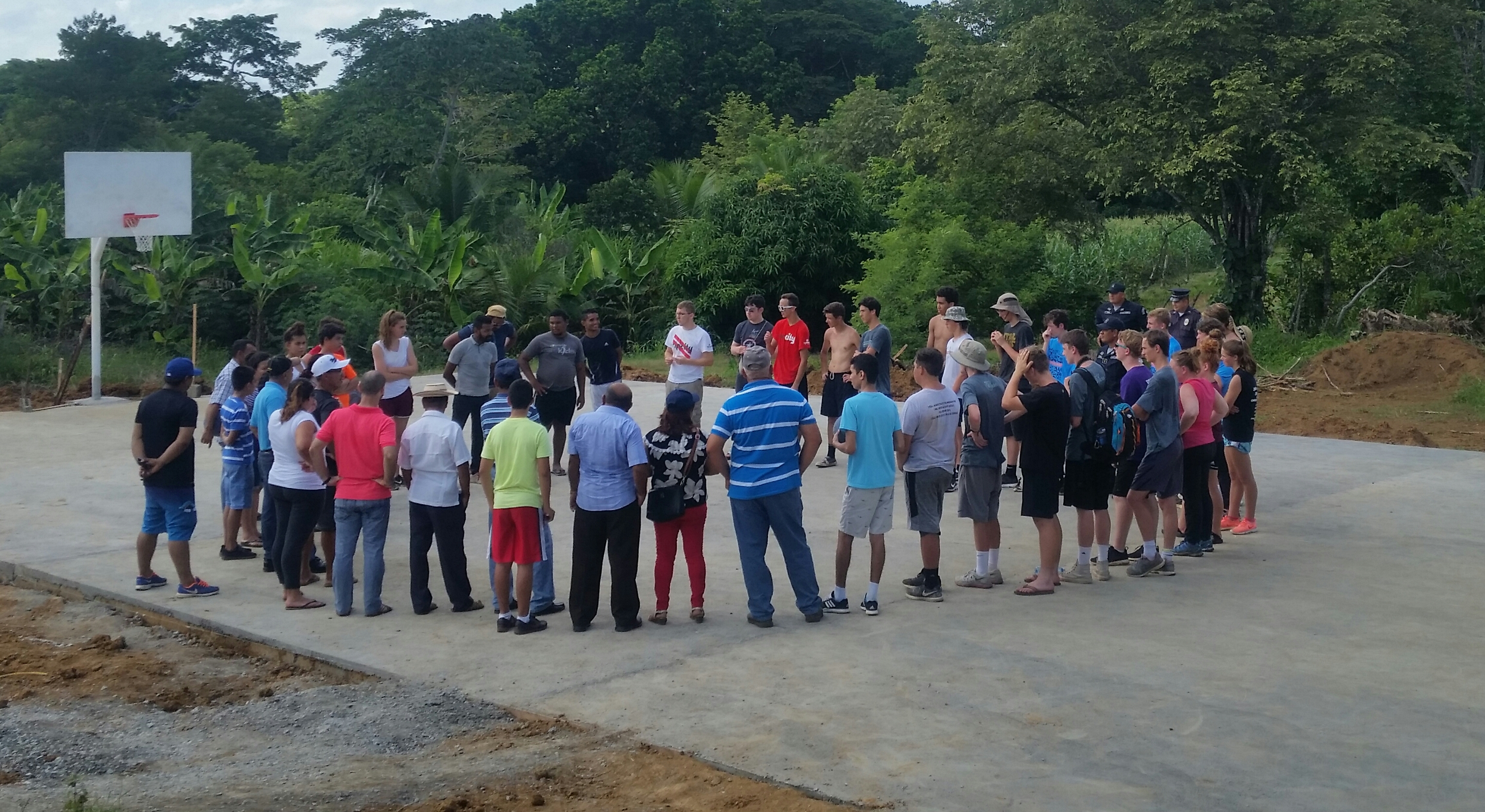 ceremony help by the local people of Rincon Hondo after the completion of the new sport court